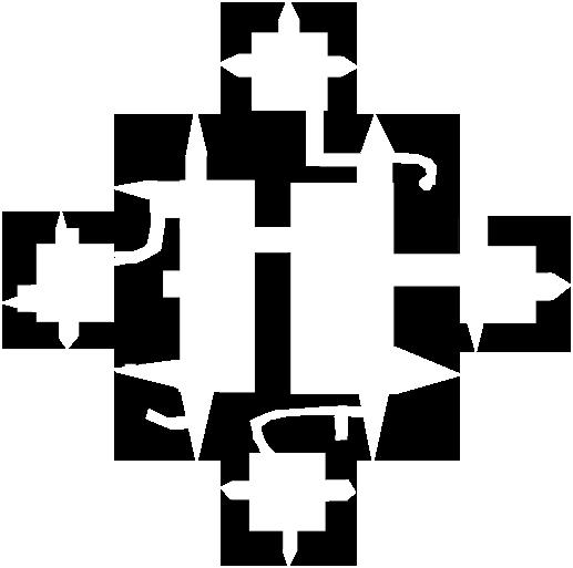 Trim keep in Ireland, hand drawn after Tom McNeill (1997) and Sweetman (1998)